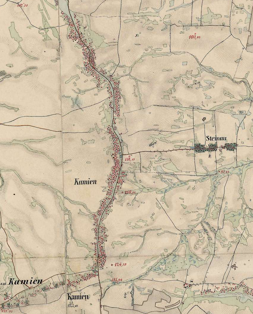 Kamień and Steinau on an austrian map from around 1855